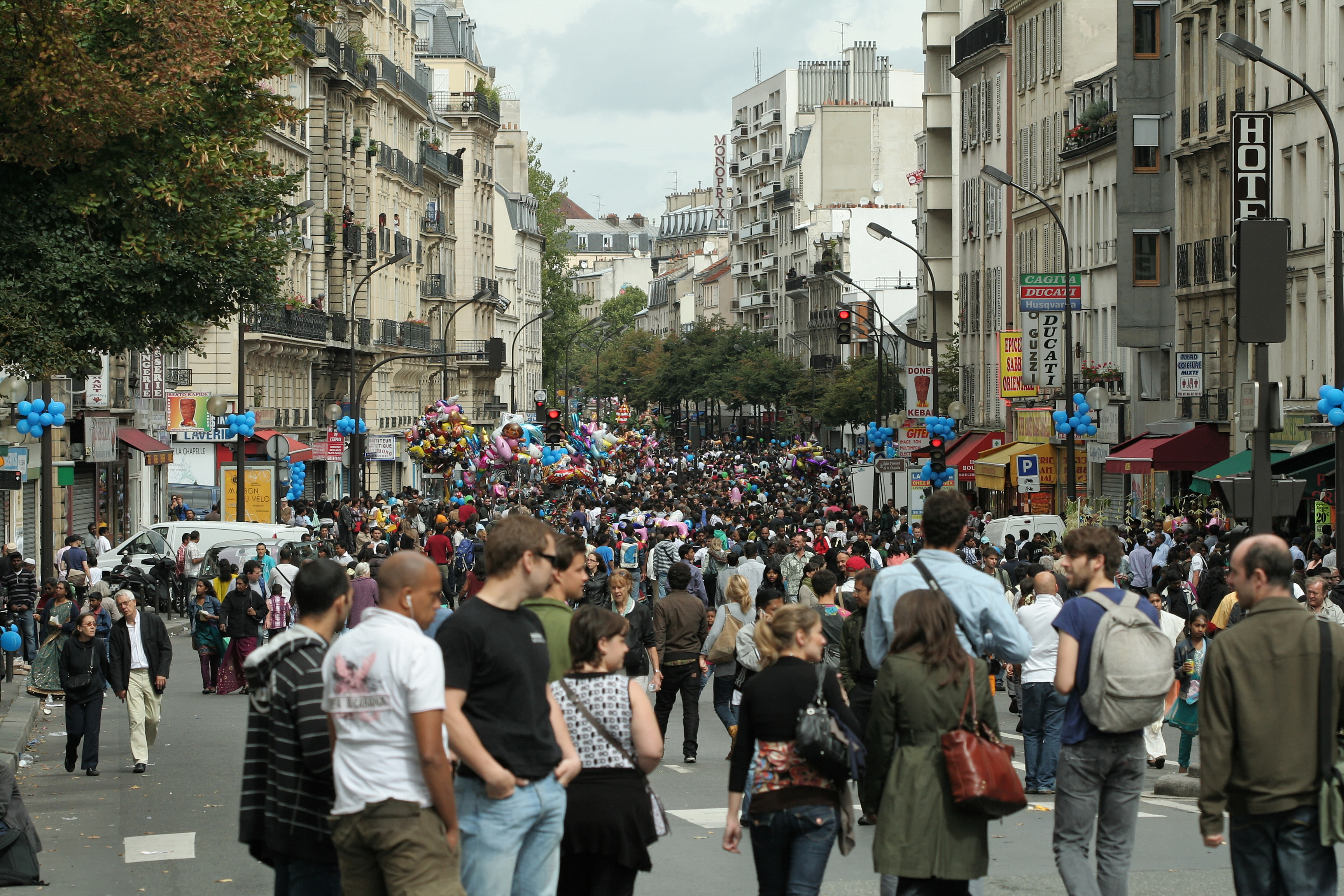 2011 celebration of Ganesh, Paris.